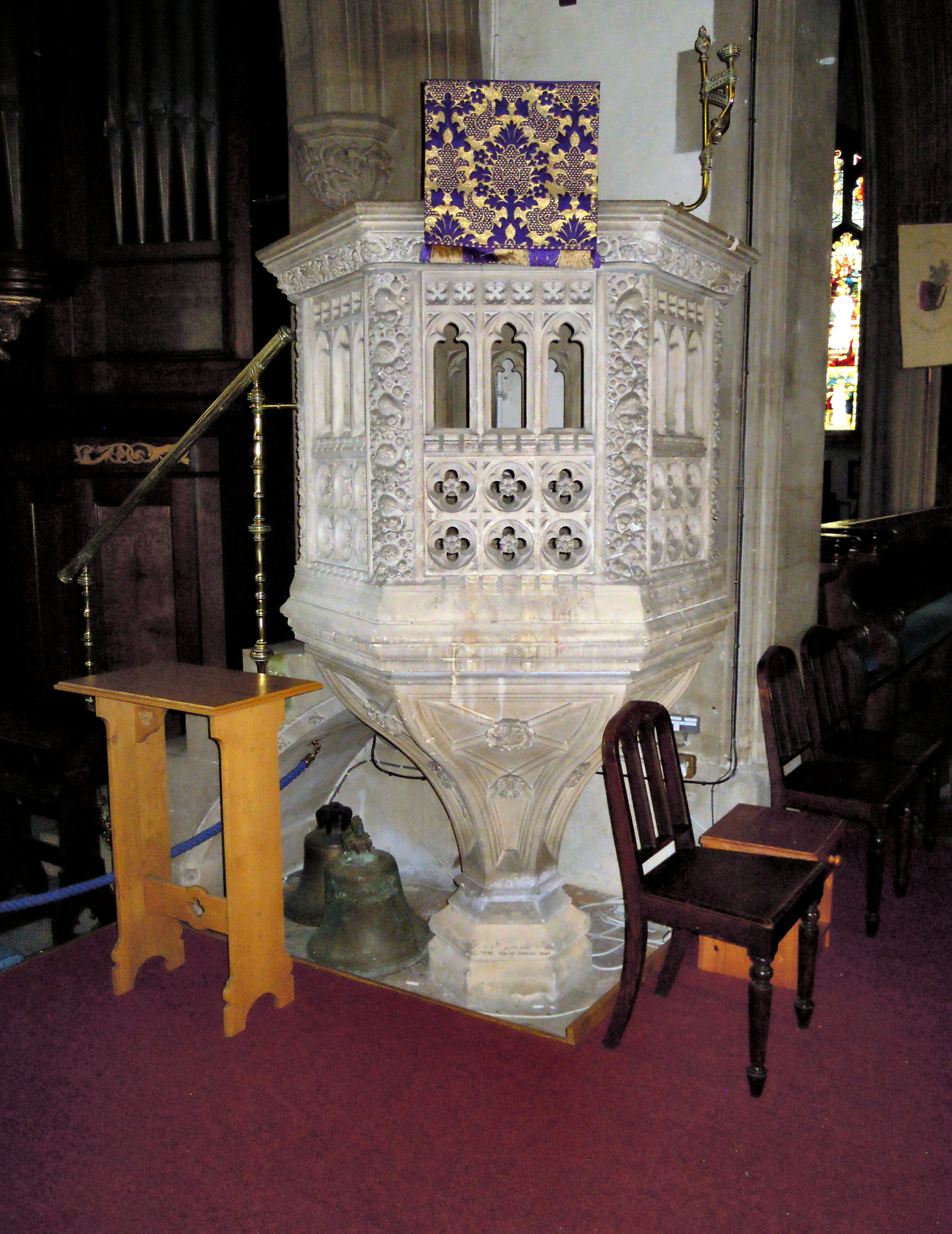 The pulpit in SS Peter and Mary Magdalene parish church, Barnstaple, Devon